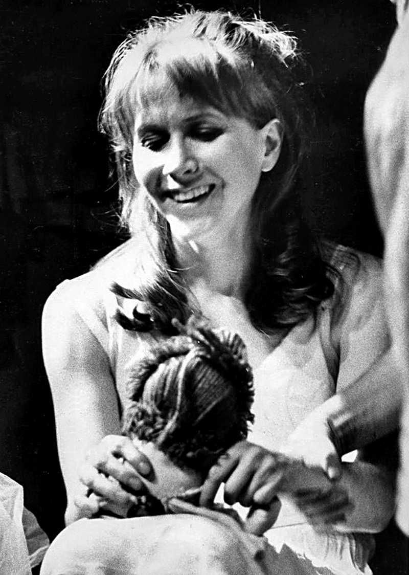 Publicity photo of Julie Harris in stage play, Marathon '33.